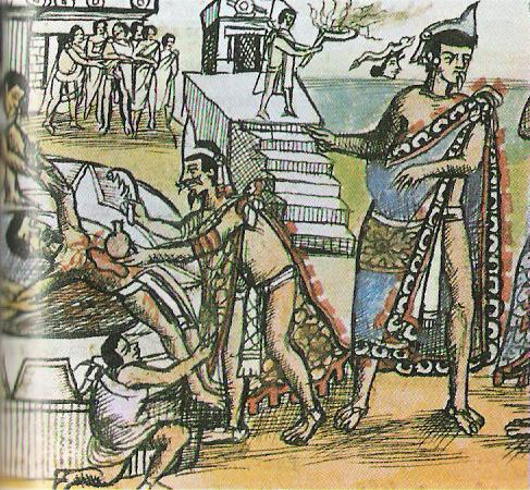 Gravado. Human_Sacrifice Pre-hispanic sacrifice. Extract Scan of Old Art Book. Extract Historia de las Indias de Diego Duran. XVI Century.